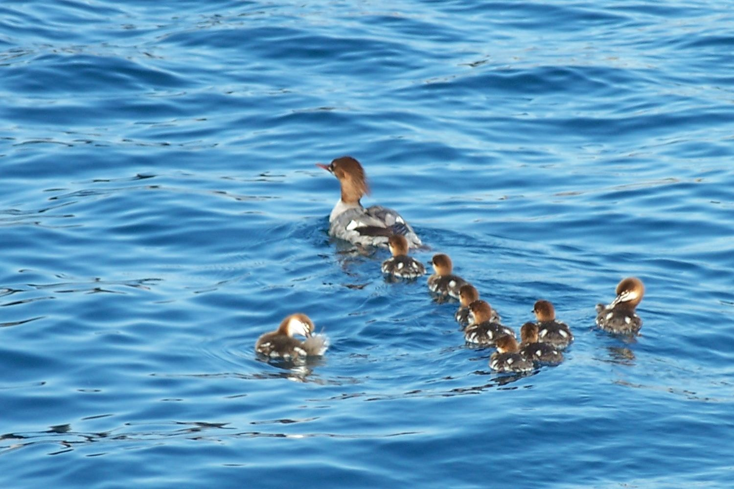 Common Merganser. Female_with_Ducklings